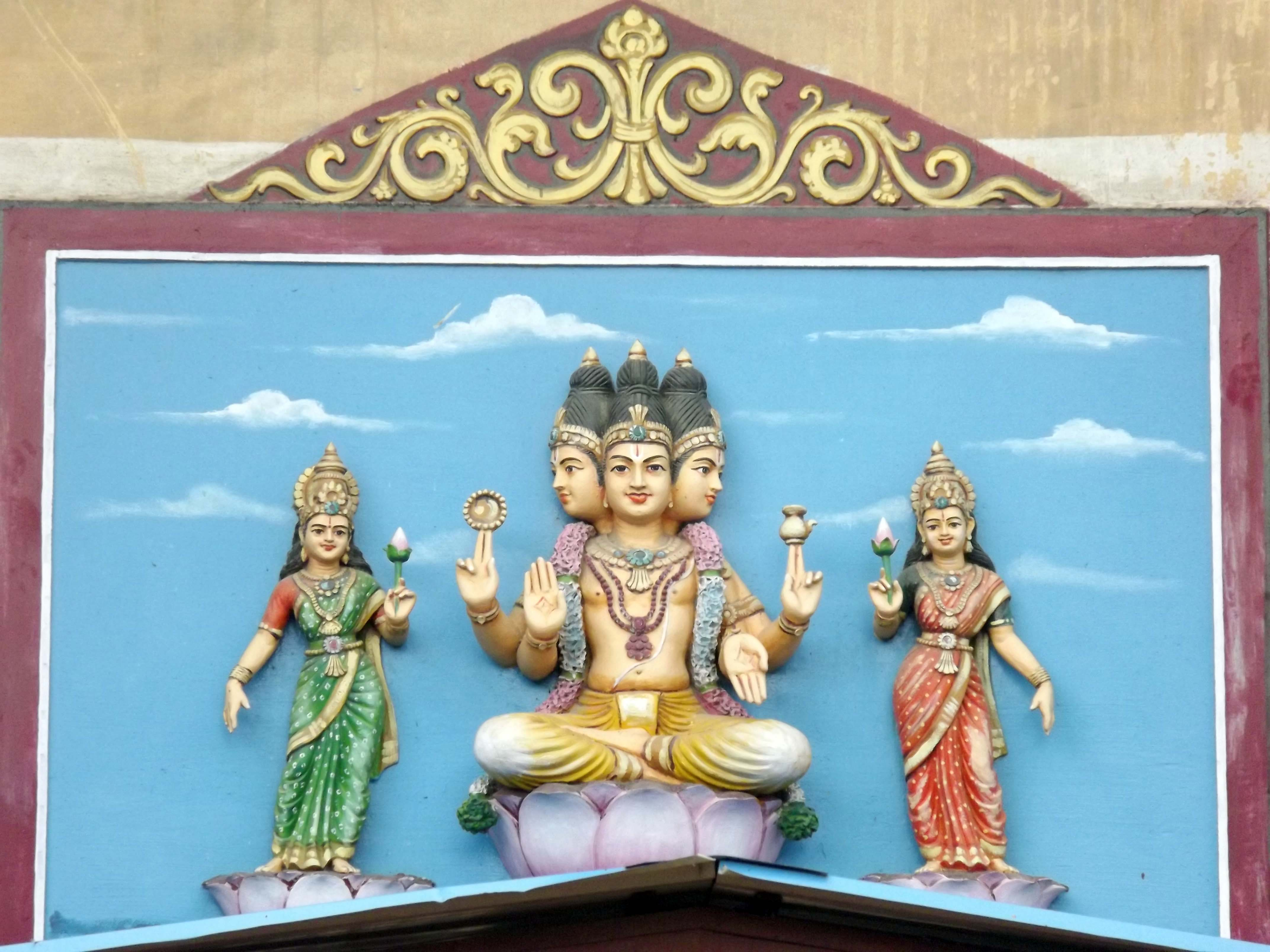 Statues in Meenakshi Amman Temple Tower